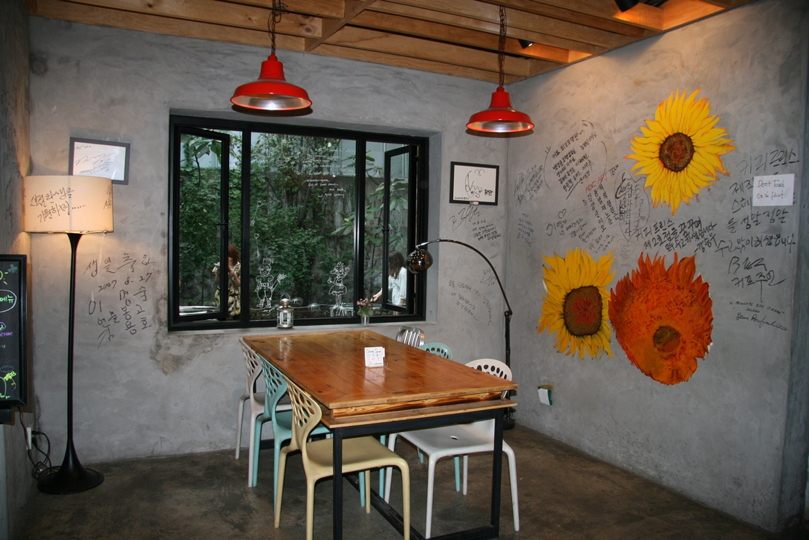 The interior of The 1st Shop of Coffee Prince, in Hongdae, Mapo-gu, Seoul in 2012. It was used as the main filming location for 2007 South Korean Munhwa Broadcasting Corporation (MBC) television drama series of the same name, featuring the wall flowers, painted by Han Yoo-joo played by Chae Jung-an